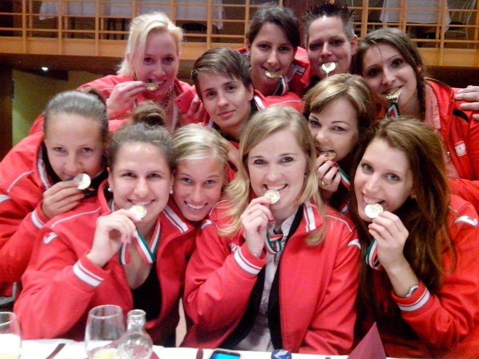 Women soccer players of the champion Dorogi DSE in 2014